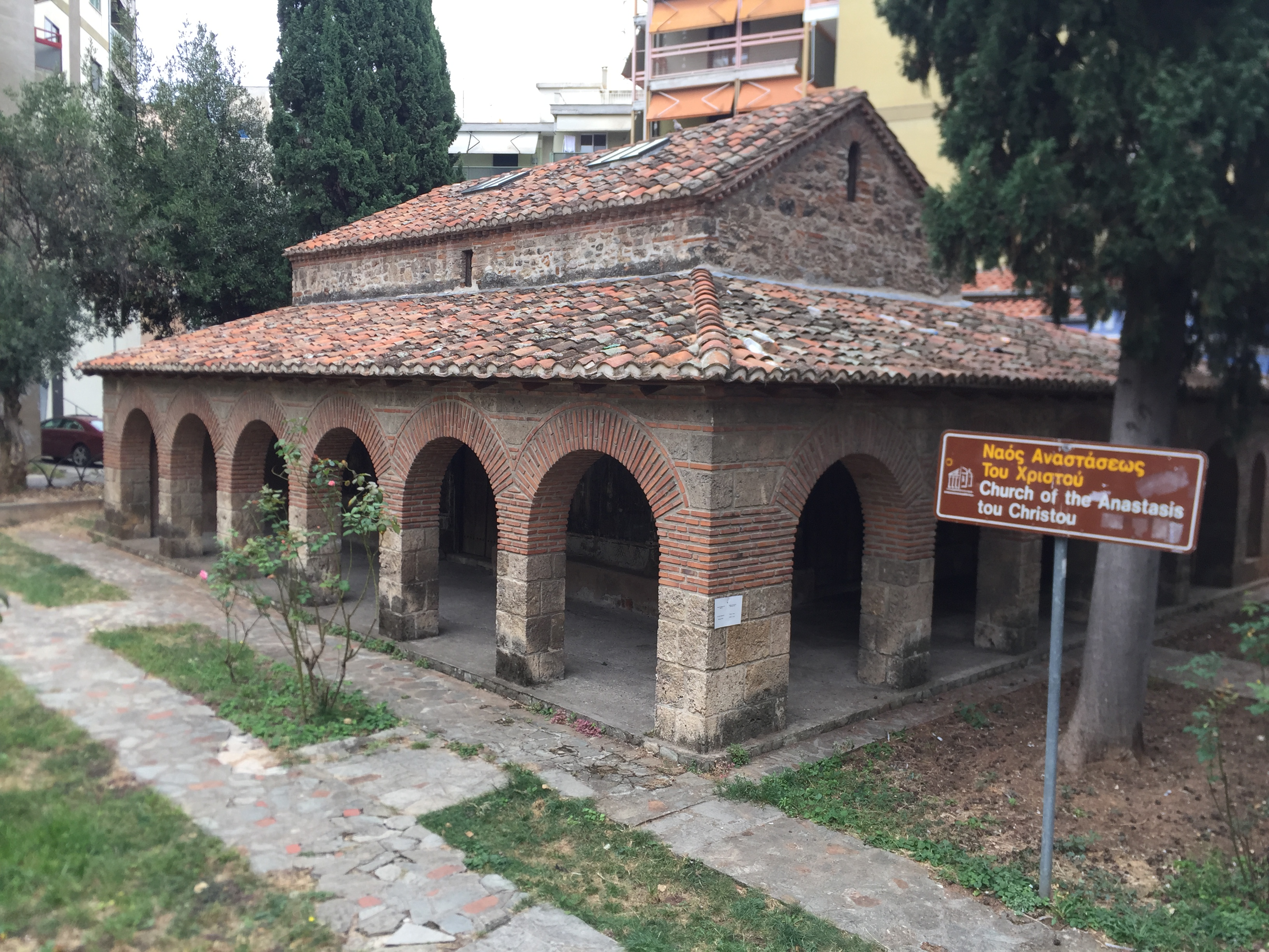 Jesus Christ – Lord and Saviour of Kalothetou Church«Ναός Ανάστασης του Σωτήρος Χριστού Βέροιας»